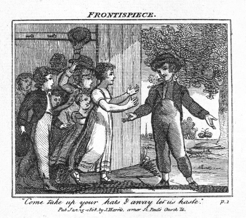 Frontispiece of the 1808, London, publication of The Butterfly's Ball, and the Grasshopper's Feast by William Roscoe, "PRINTED FOR J. HARRIS, SUCCESSOR TO E. NEWBERY, AT THE ORIGINAL JUVENILE LIBRARY, CORNER OF ST. PAUL'S CHURCH-YARD."